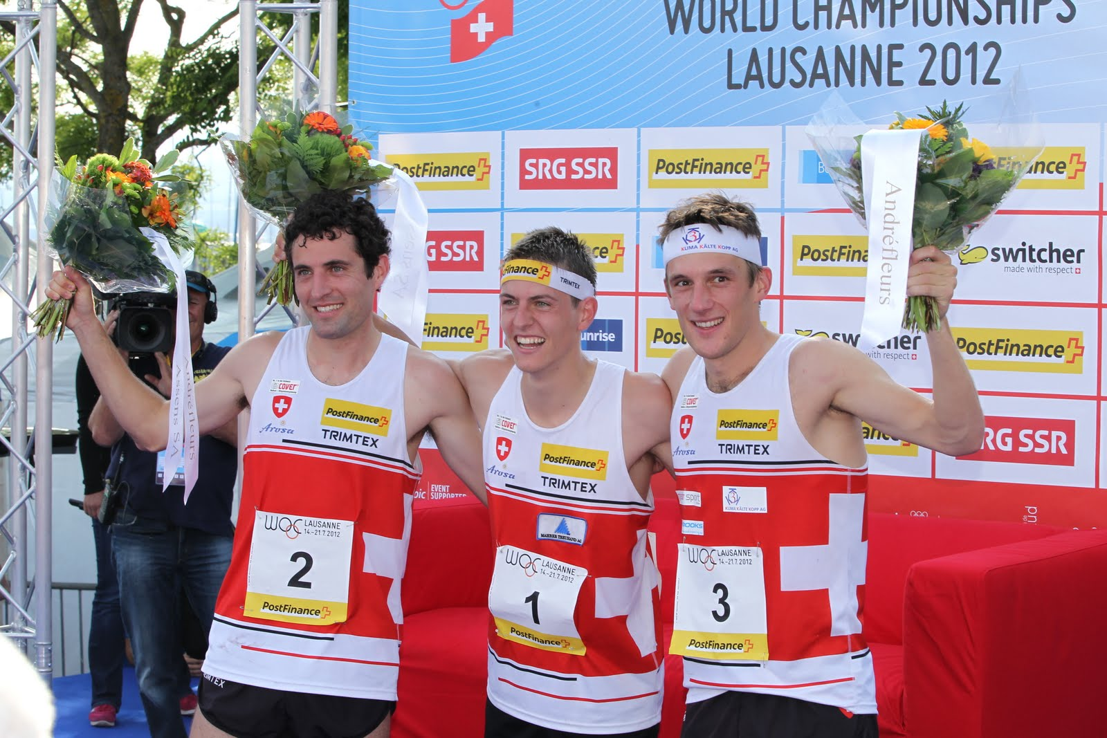 Matthias Merz, Matthias Kyburz, Matthias Müller